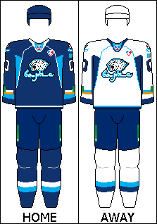 Barys Astana uniforms for 2013/2014 KHL season.